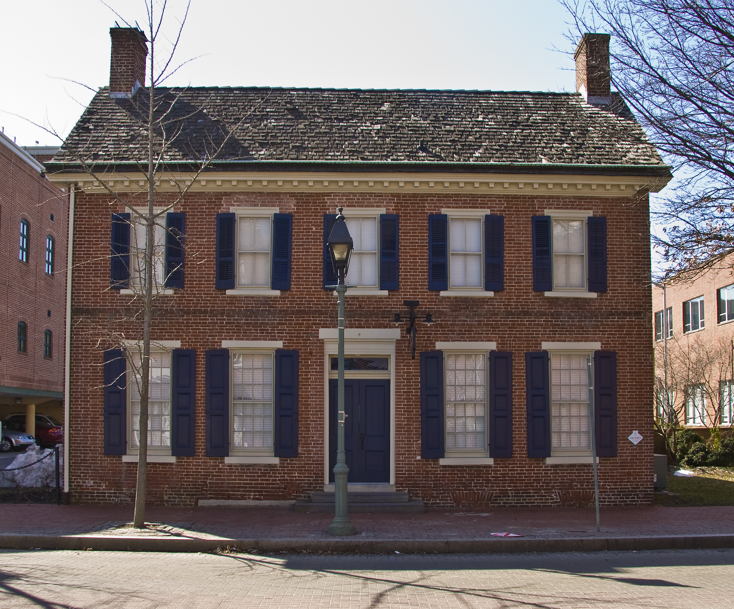 John Bullen House, 214 South State Street, Dover, Delaware, USA